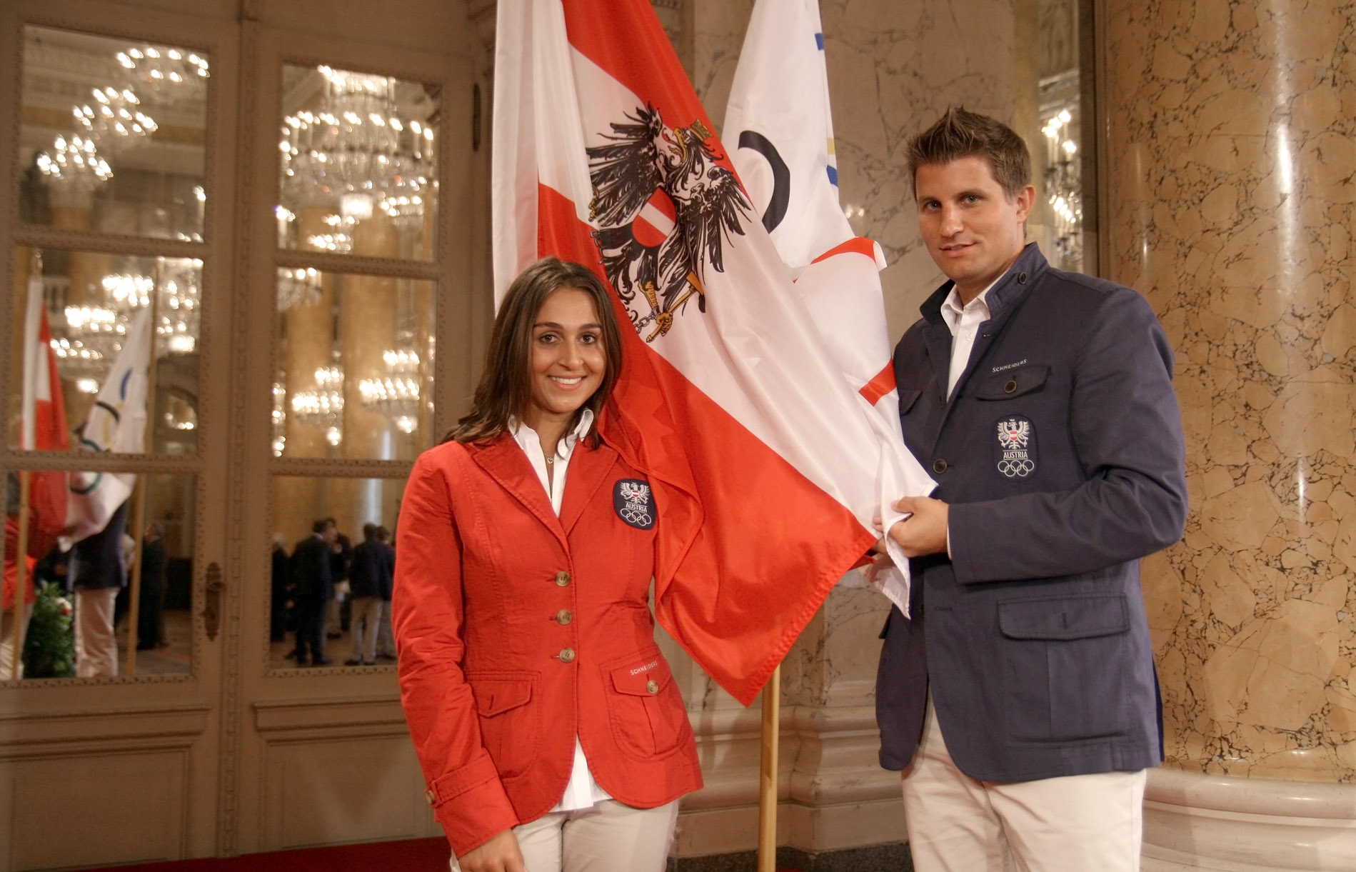 Tamira Paszek and Clemens Trimmel (ÖTV-Sportdirektor, Coach) at the official farewell of the Austrian team for the 2012 Summer Olympics in London at the ceremonial hall of Hofburg Palace in Vienna.